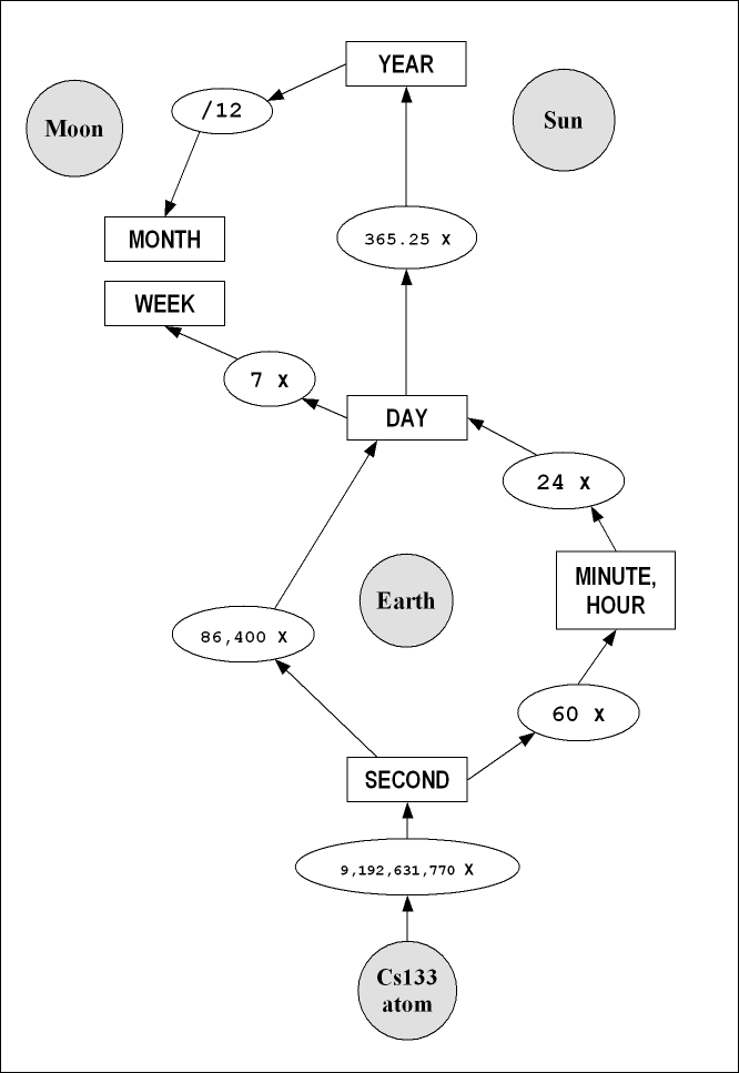 Flowchart illustrating interrelationships among the major units of time.